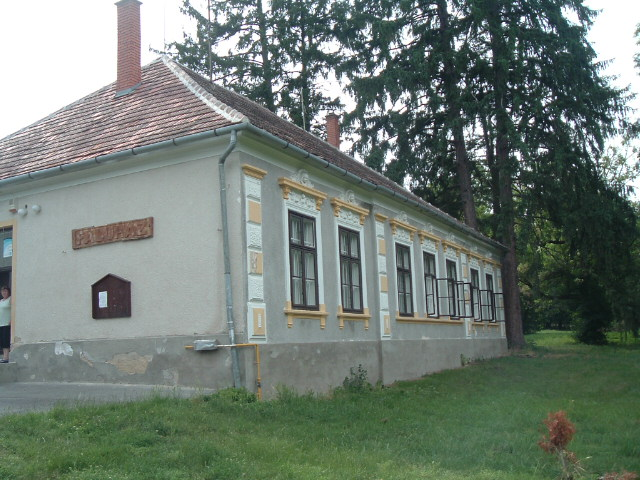 The house of the village in Tömörd